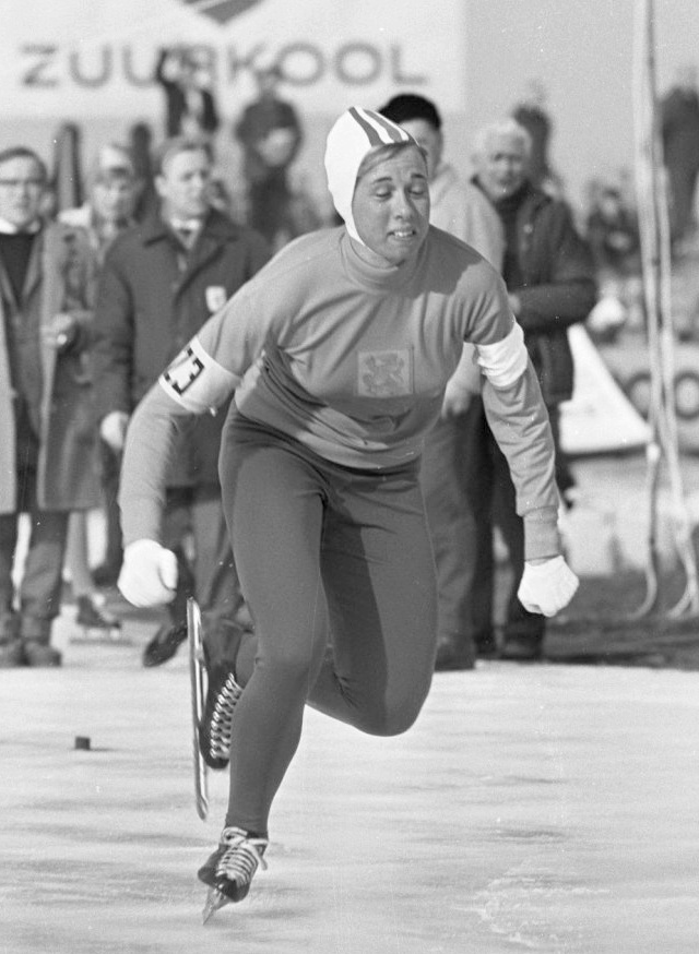 Carry Geijssen, World Championships